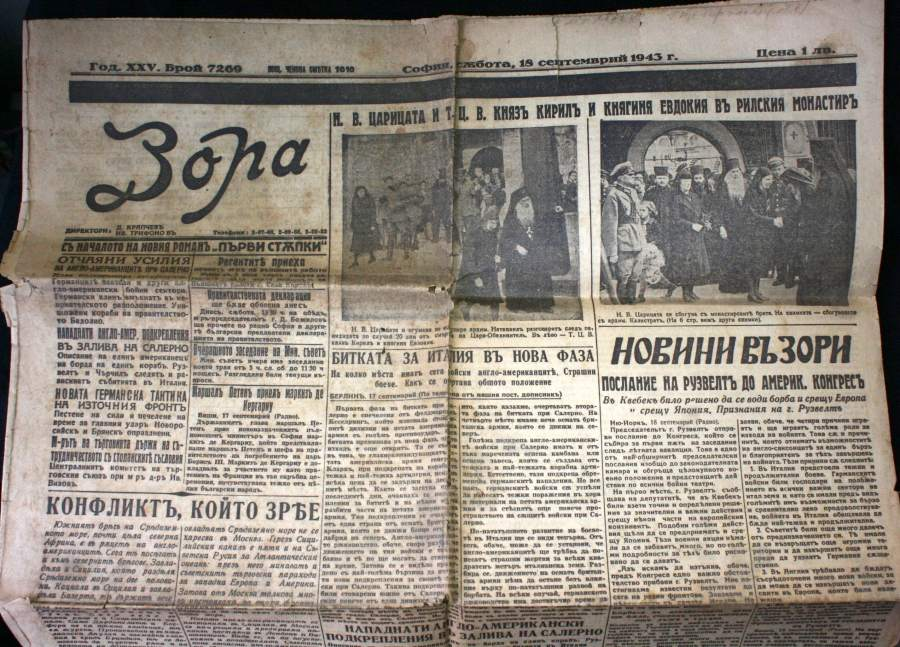 Zora newspaper